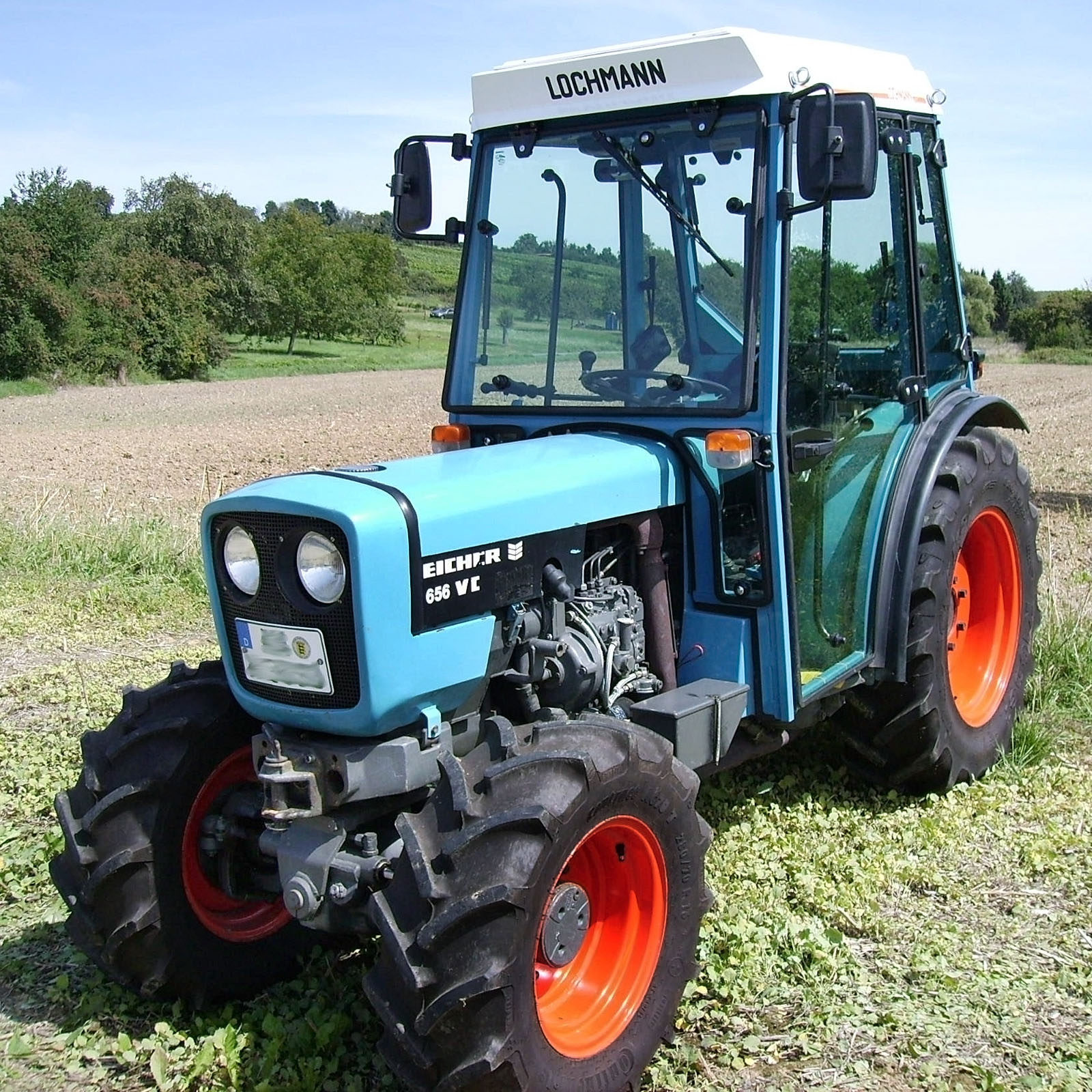 Eicher 656 VC